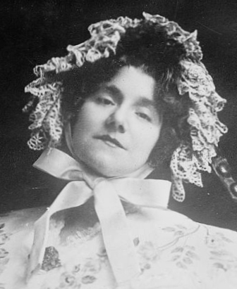 French music-hall singer and actress Yvette Guilbert (1865-1944)